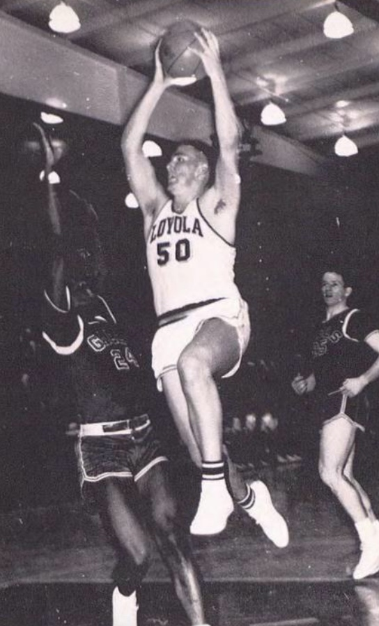 Loyola University California basketball player Jerry Grote from the 1962 “Lair” yearbook.